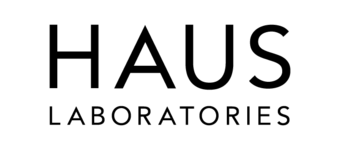 Haus Laboratories' wordmark, captured from their official site.